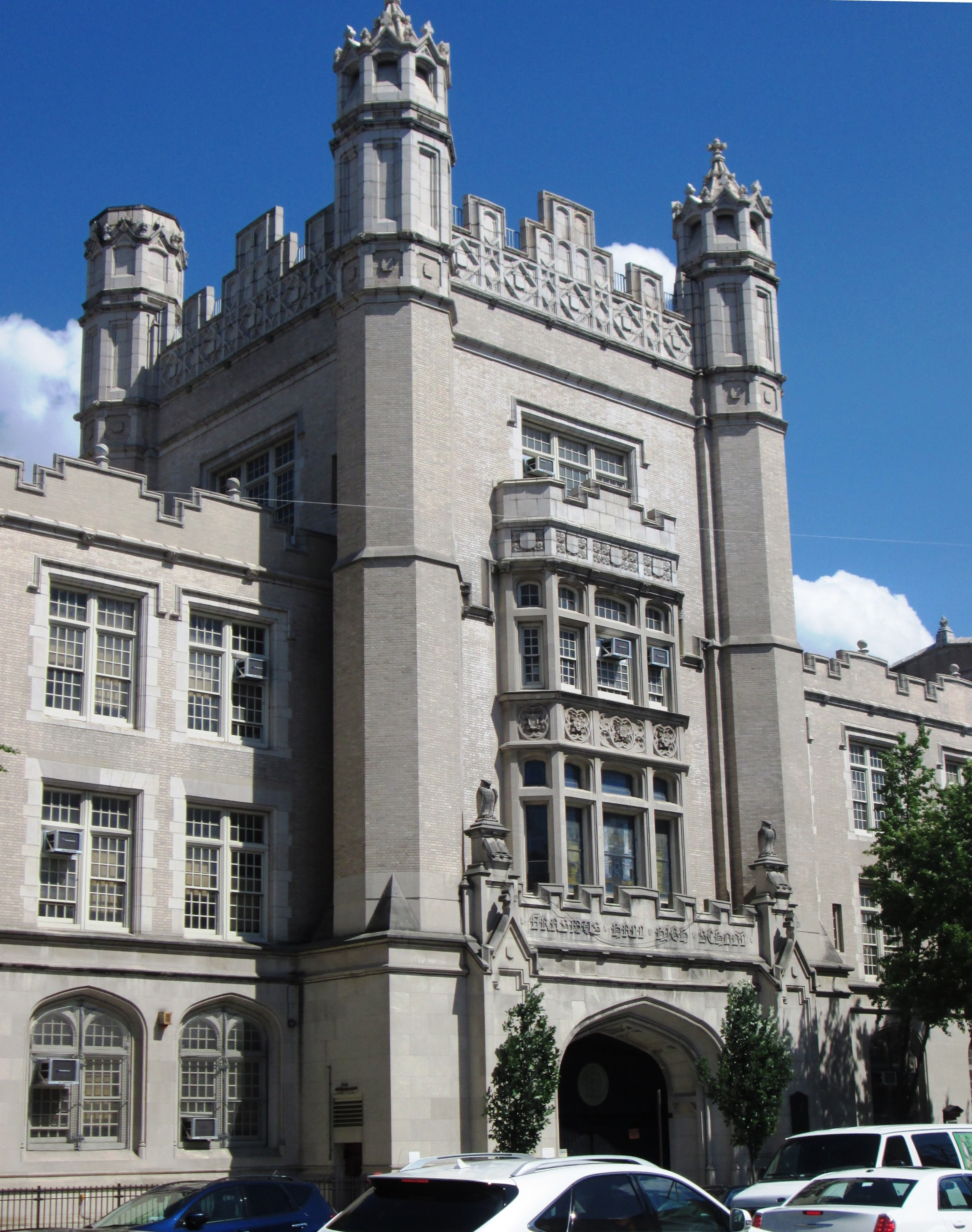 Erasmus Hall High School was a four-year public high school located at 899-925 Flatbush Avenue between Church and Snyder Avenues in the Flatbush neighborhood of the New York City borough of Brooklyn. It was founded in 1786 as Erasmus Hall Academy, a private institution of higher learning named for the scholar Desiderius Erasmus, a Dutch Renaissance humanist and Catholic Christian theologian. The clapboard-sided, Georgian-Federal-style building, constructed in 1787 on land donated by the Flatbush Dutch Reformed Church, was donated to the public school system in 1896, and still stands in the courtyard of the current school, serving as a museum exhibiting the school’s history. The current school buildings in the Collegiate Gothic style were built in 1905-06 and 1909-11, designed by C.B.J. Snyder; and 1924-25 and 1939-40, designed by William Gompert and Eric Kebbon. Due to poor academic scores, the city closed the high school in 1994, turning the building into Erasmus Hall Educational Campus and using it as the location for five separate small schools.